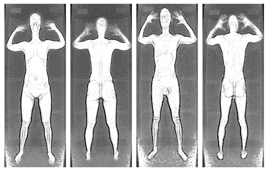 Backscatter Imaging "Backscatter technology projects low level X-ray beams over the body to create a reflection of the body displayed on the monitor. Backscatter technology produces an image that resembles a chalk etching."